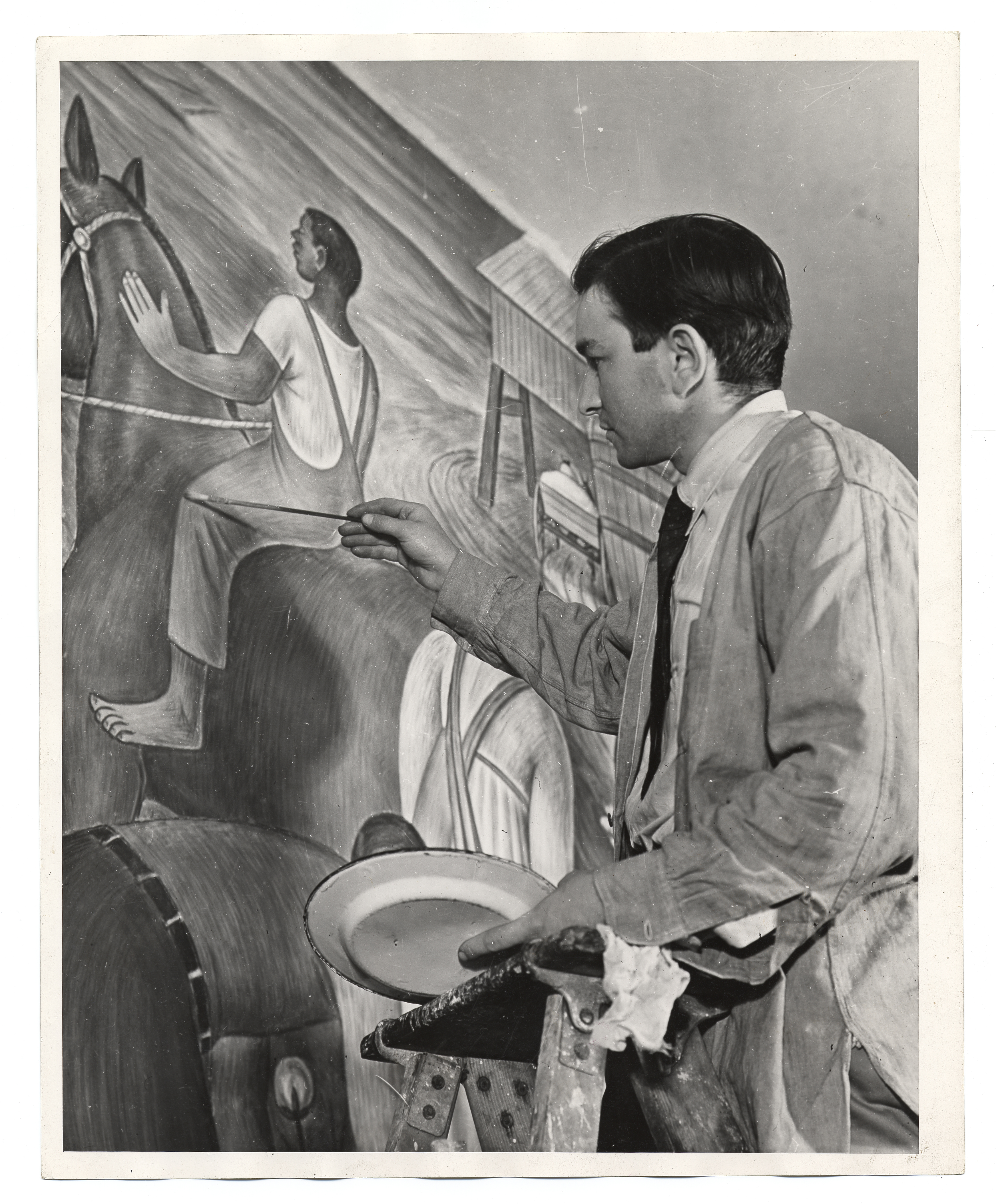 Lewis at work on a fresco painting for the Works Progress Administration. Identification on verso (handwritten and stamped): Federal Art Project W.P.A.; Photographic Division; 235 East 42nd Street; New York City Mural Department Girls Industrial H.S.; Location: Brooklyn; Date: 5/26/38; Negative No.: 3018-5; Photographer: Turner; Title: Artists at work on Fresco paintings; Artist: Monty Lewis.